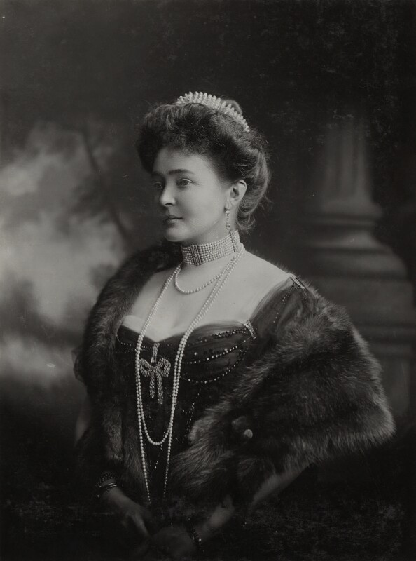 Princess Louise, Duchess of Connaught (née Princess of Prussia) (1860-1917), Daughter of Prince Frederick of Prussia; wife of Arthur, Duke of Connaught.